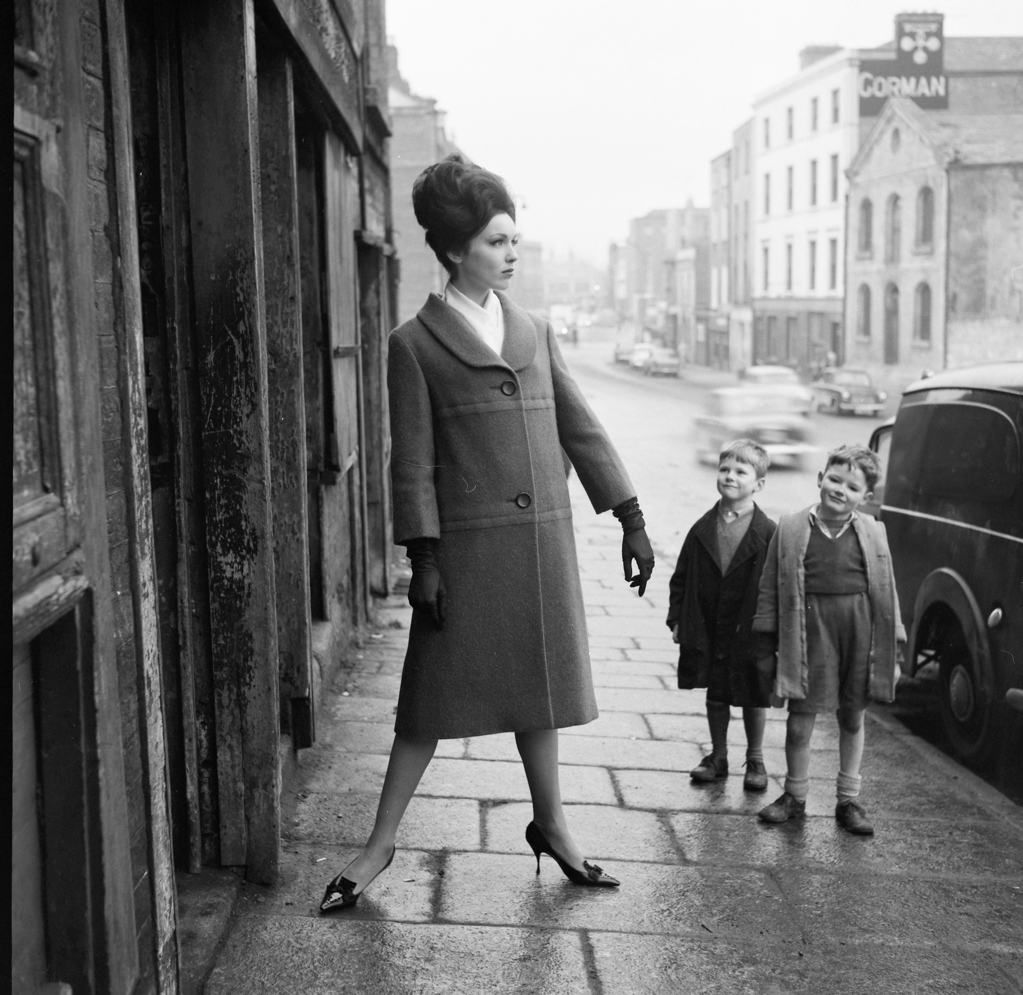 This is American model Linda Ward (O'Reilly) posing, while two local boys give her outfit the once over… Fantastically well done to derangedlemur for getting the location of this photo as Winetavern Street, given that the whole right hand streetscape is completely different today!